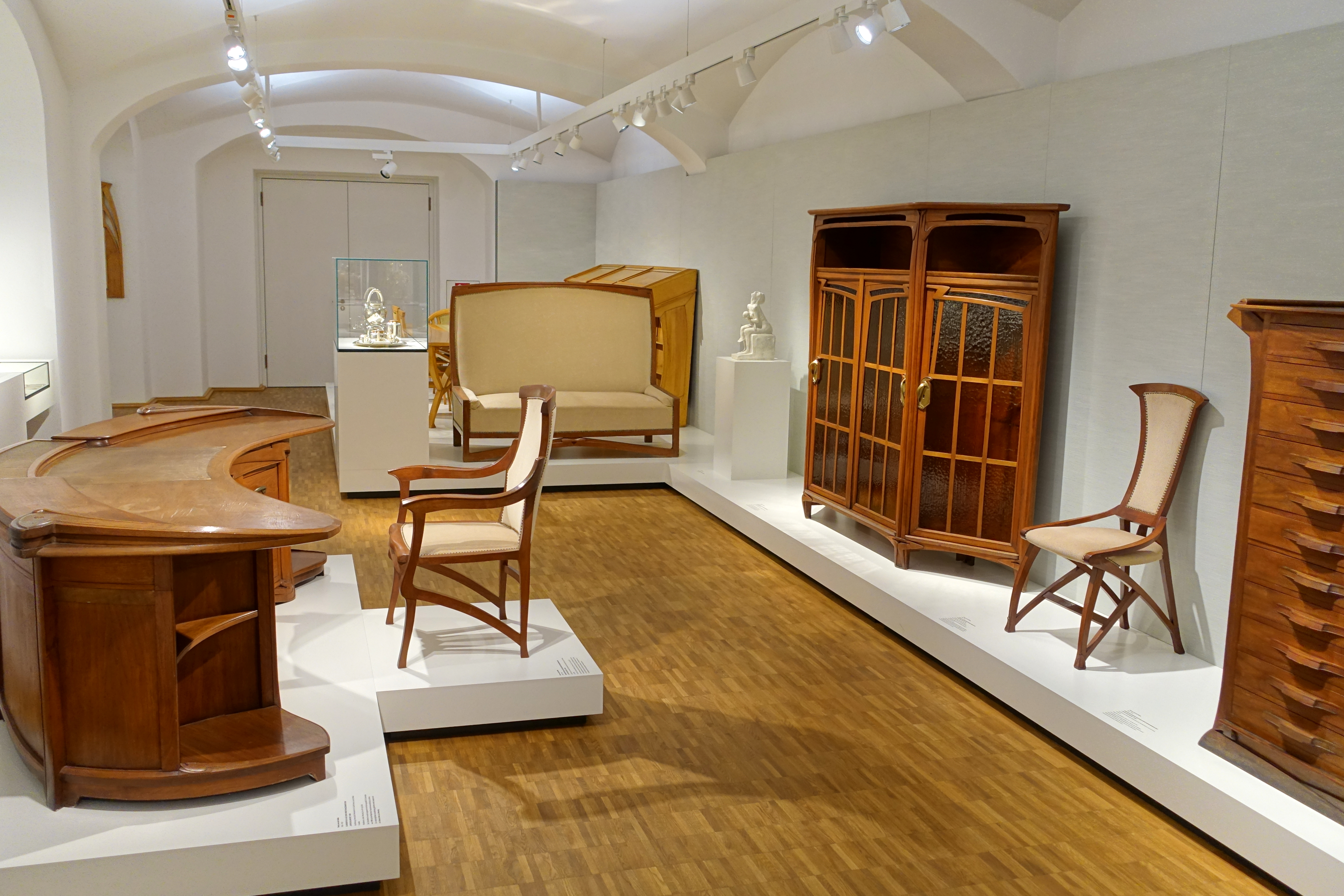 Exhibit in the Hessisches Landesmuseum Darmstadt - Darmstadt, Germany. As a utilitarian object, this exhibit is NOT subject to copyright laws. Instead it is subject to Industrial Design Rights; see Industrial Design Right for more information. If this object was ever covered by a design patent, that patent has long since expired, and thus this image is in the public domain.